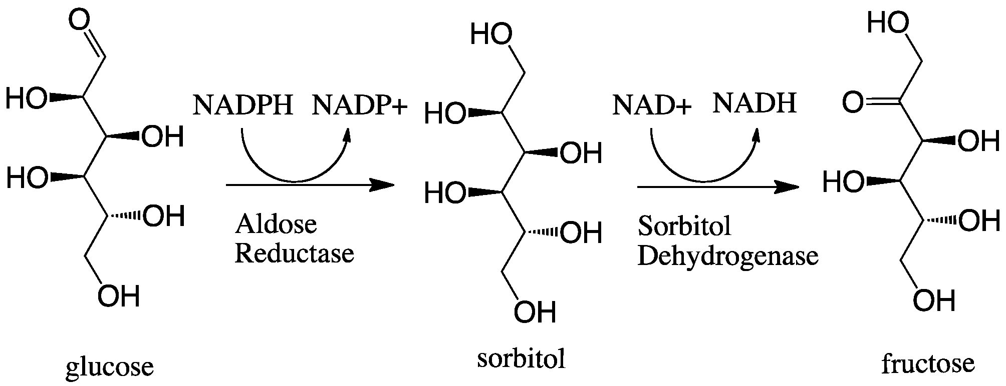 Schematic of the polyol pathway of glucose metabolism